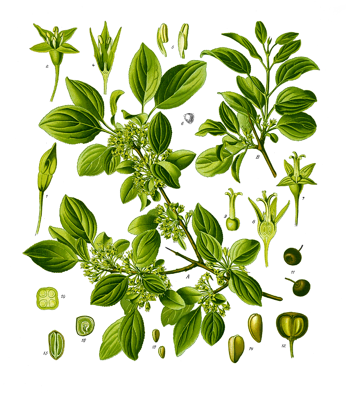 Illustration of RHAMNUS cathartica L. 63 (Rhamnus cathartica L., common buckthorn)